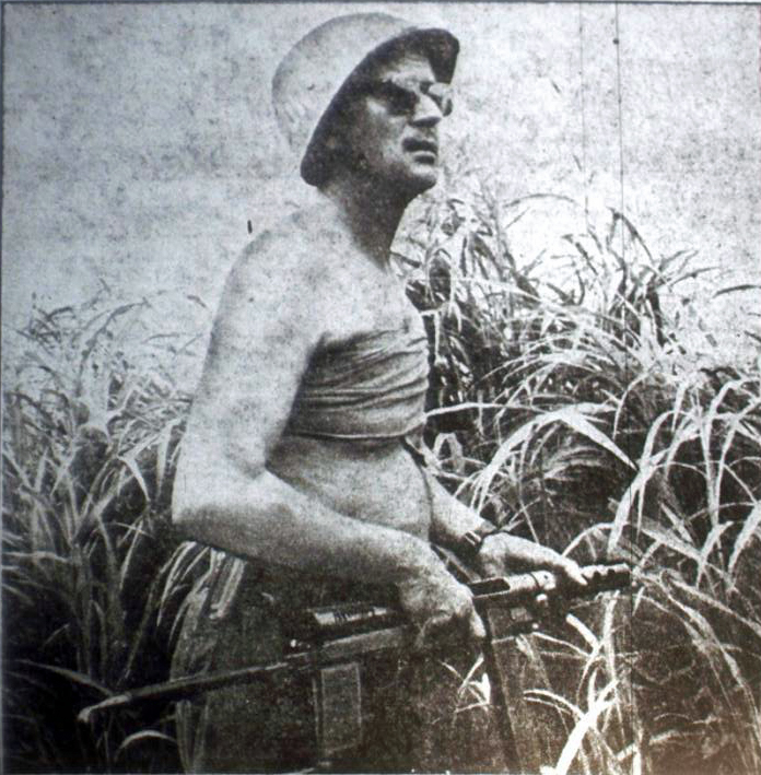 Original caption from Aftonbladet: "Major Eric Bonde was lightly wounded in the ambush. After given first aid he returned to the fight against the invisible enemy in the jungle bush.”